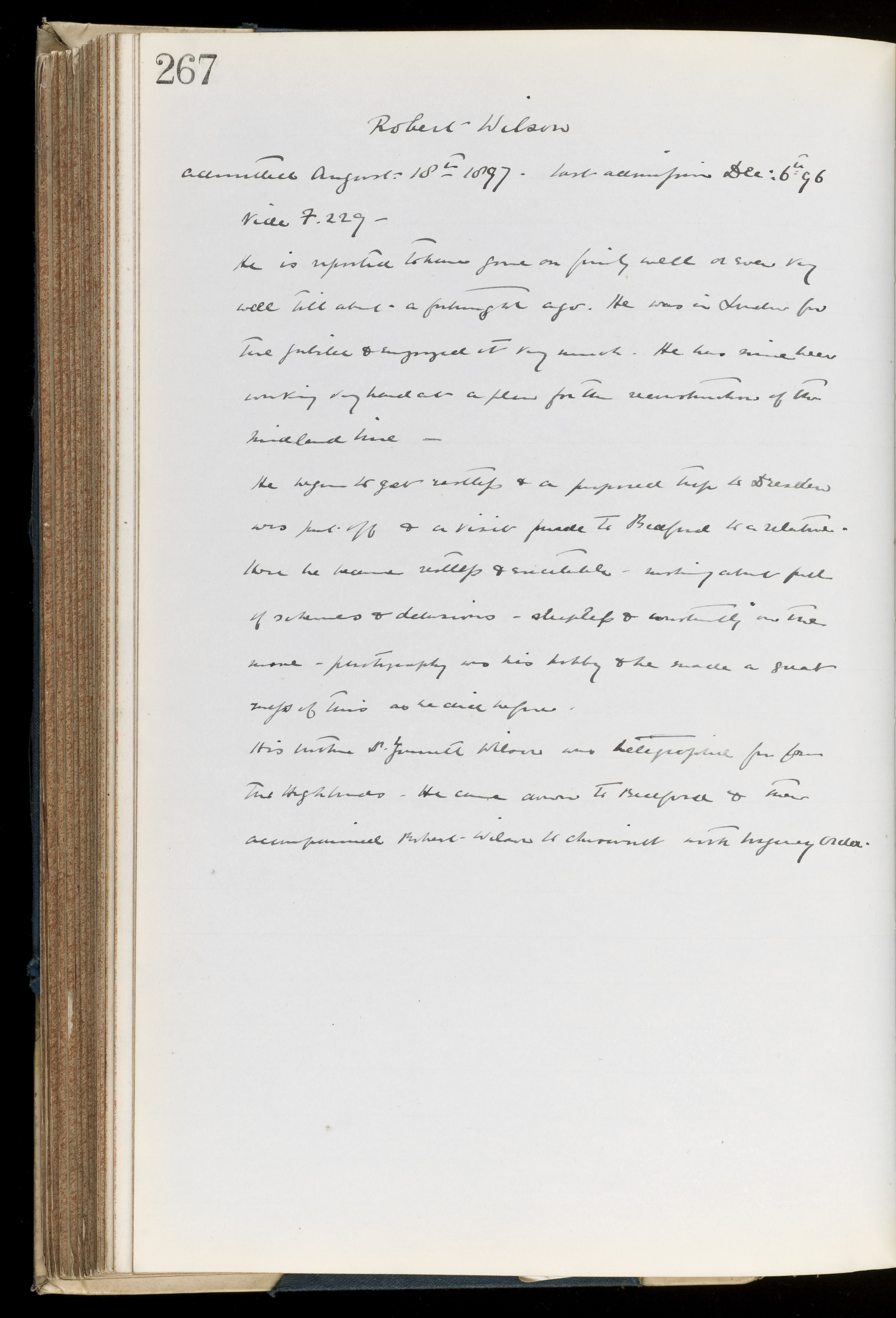 Case notes, male patients, 1892-1907. Case notes of Robert Wilson. A patient of Manor House Asylum, Chiswick. Readmission. June 1892-July 1907 Archives & Manuscripts